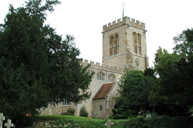 St Laurence, Chicheley, Bucks